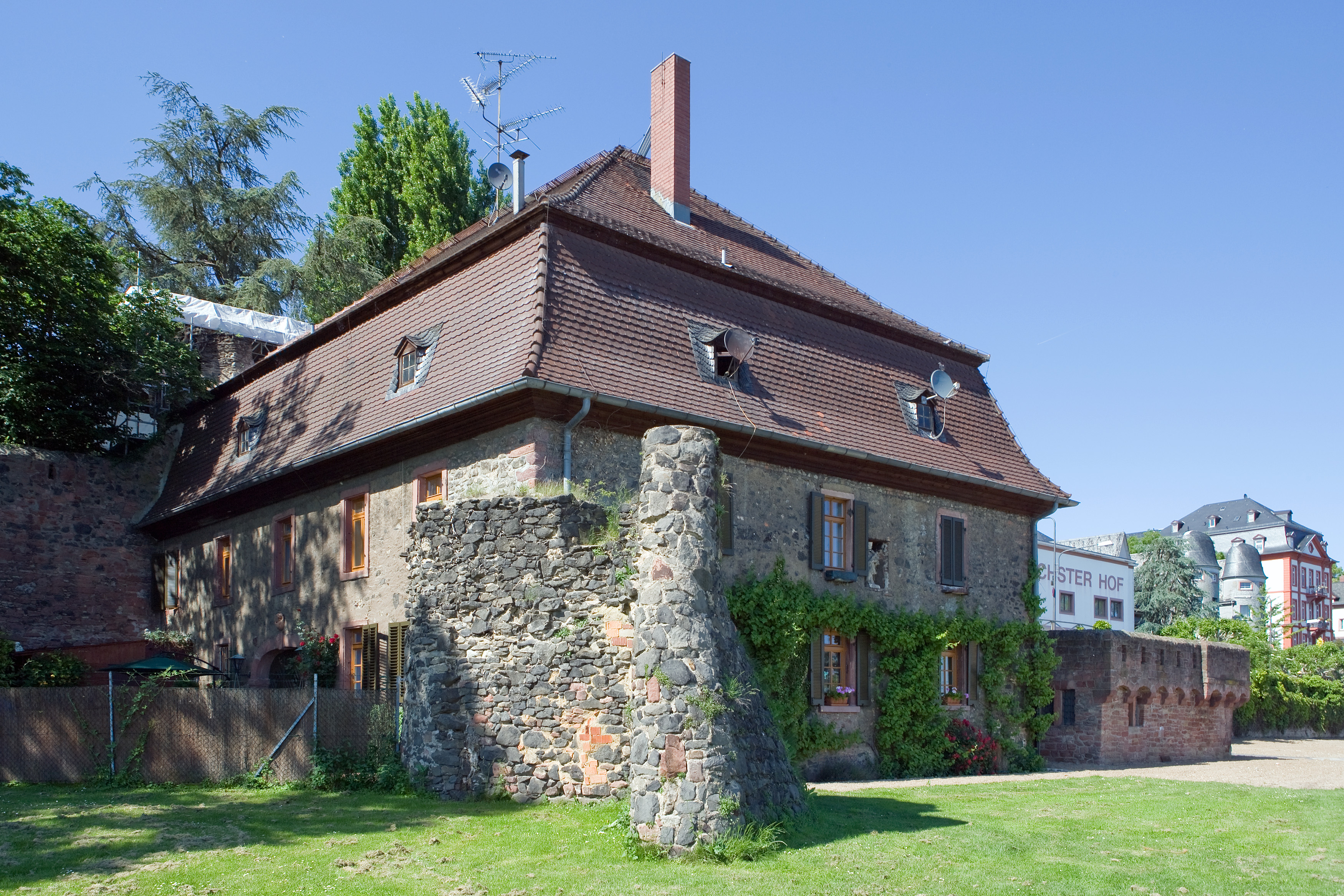 Frankfurt on the Main: Mainberg (Main Mountain) 2 as seen from the southwest